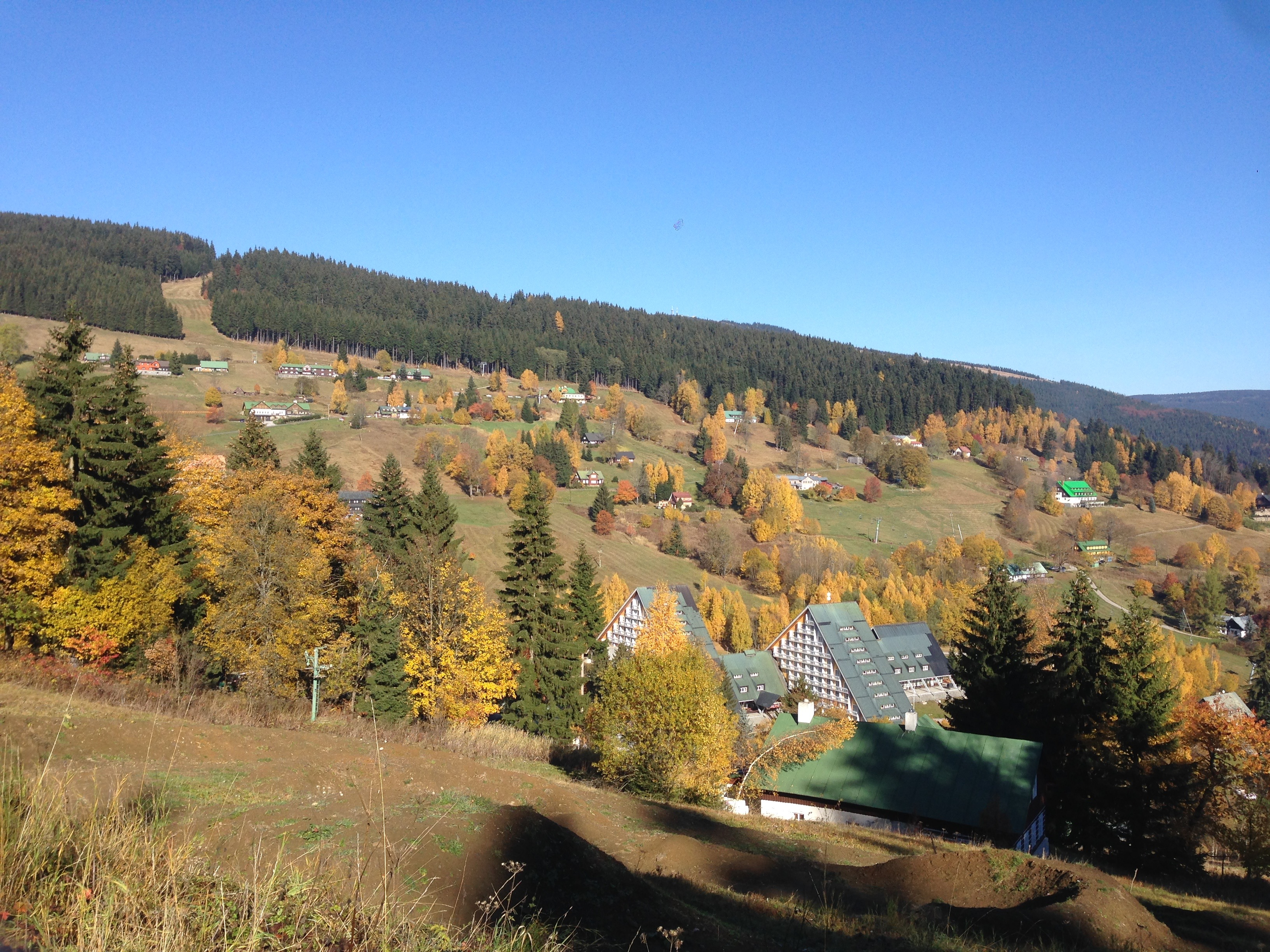 View on Labská hill.